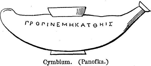 Cymbium (kind of cup used in Ancient Greece)